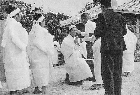 Izaiho(Ryukyuan religious ceremony)